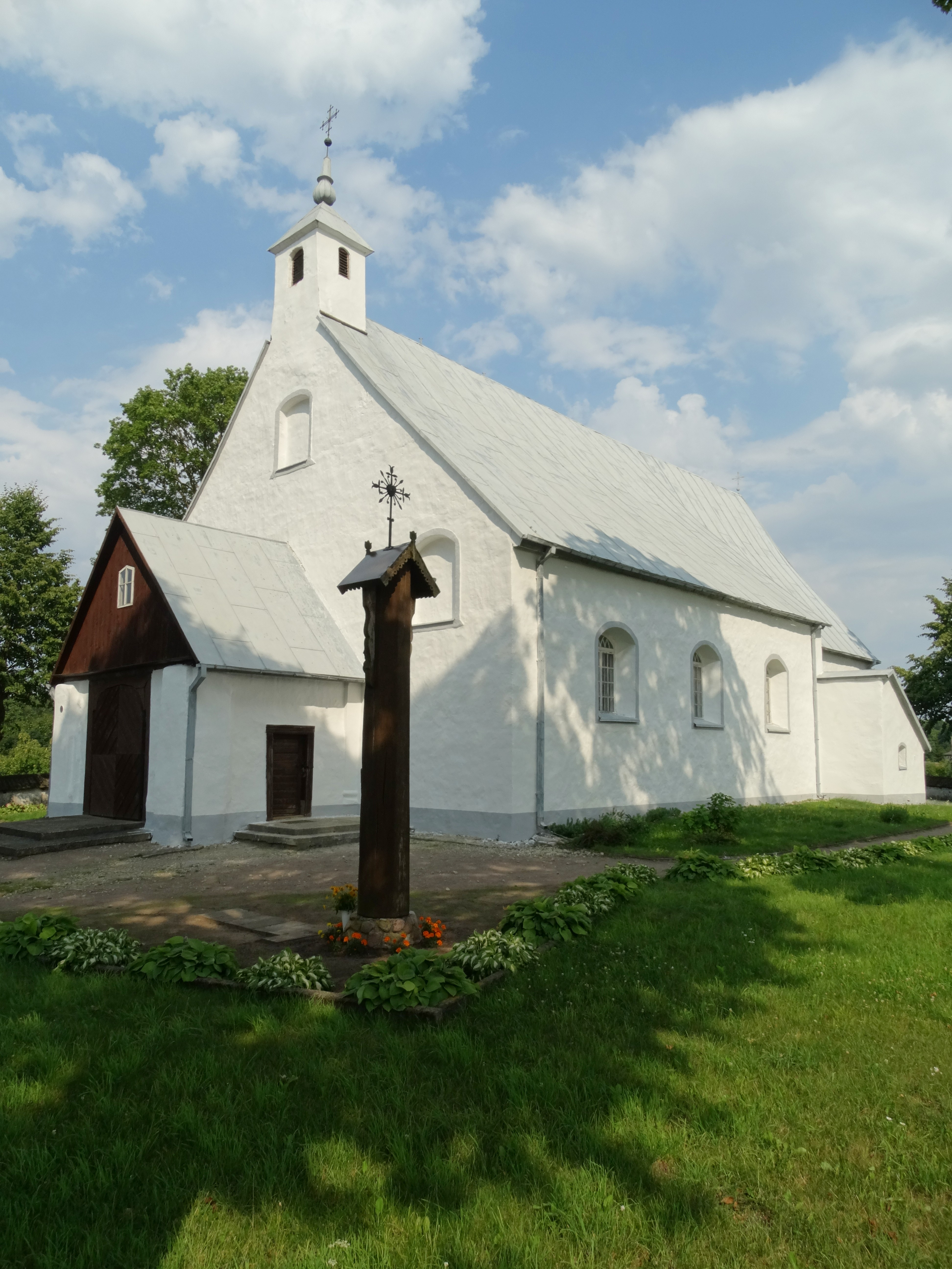 2-nd St. Peter and St. Paul's Church, Žagarė, Joniškis district, Lithuania